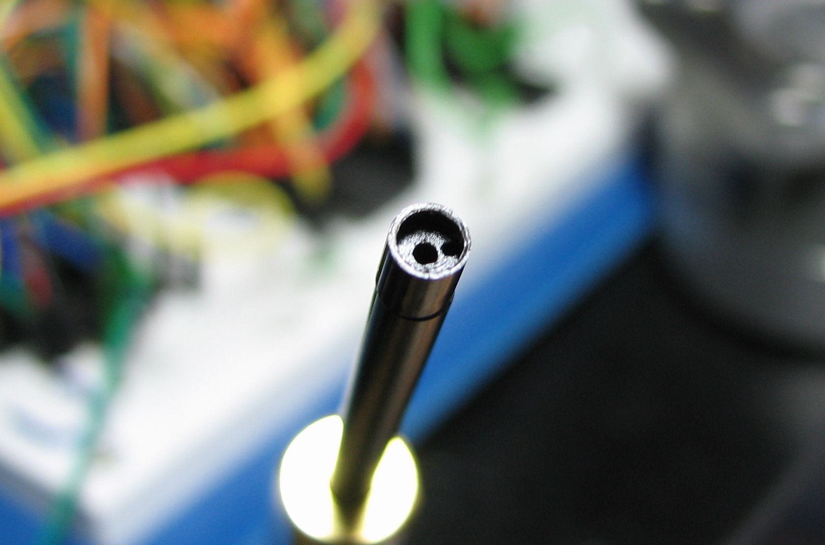 A photograph of the wrapping end of a wire wrap tool, showing the hole where the wire is placed (near the edge) and the hole into which the post is inserted (in the centre). Taken myself using a Canon Powershot S2 IS.